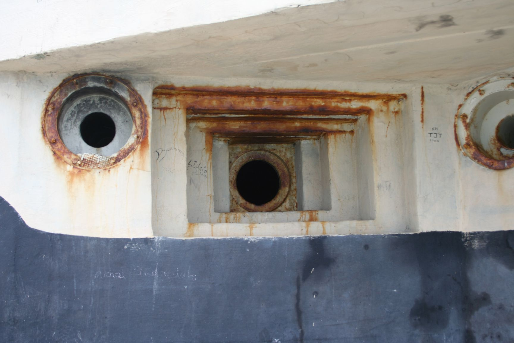 Schron Sep, Jastarnia [1]